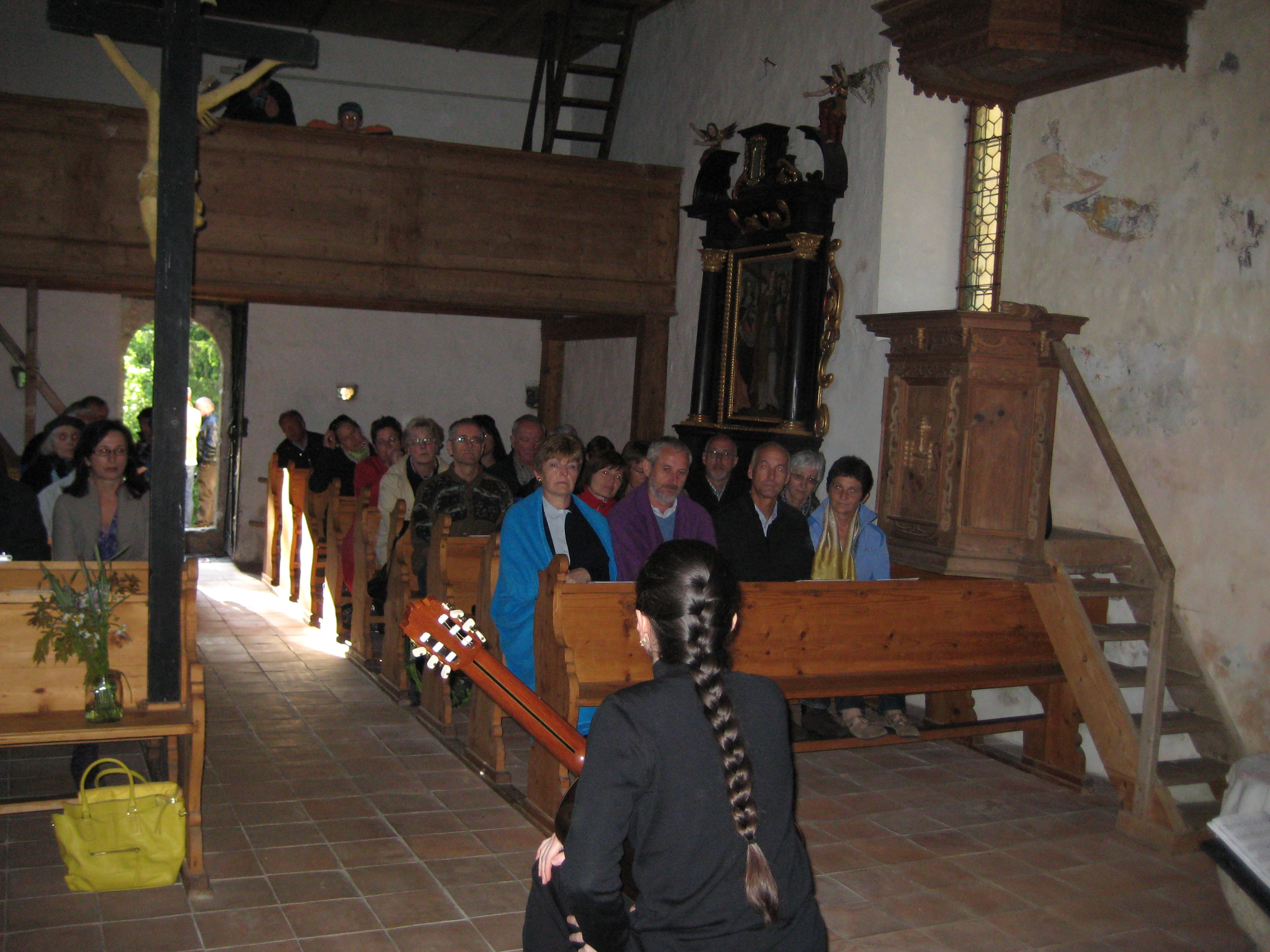 The Austrian Guitarist Johanna Beisteiner during a solo concert on 17-05-2012 at St. Helena's Church in Dellach (Hermagor, Carinthia, Austria).